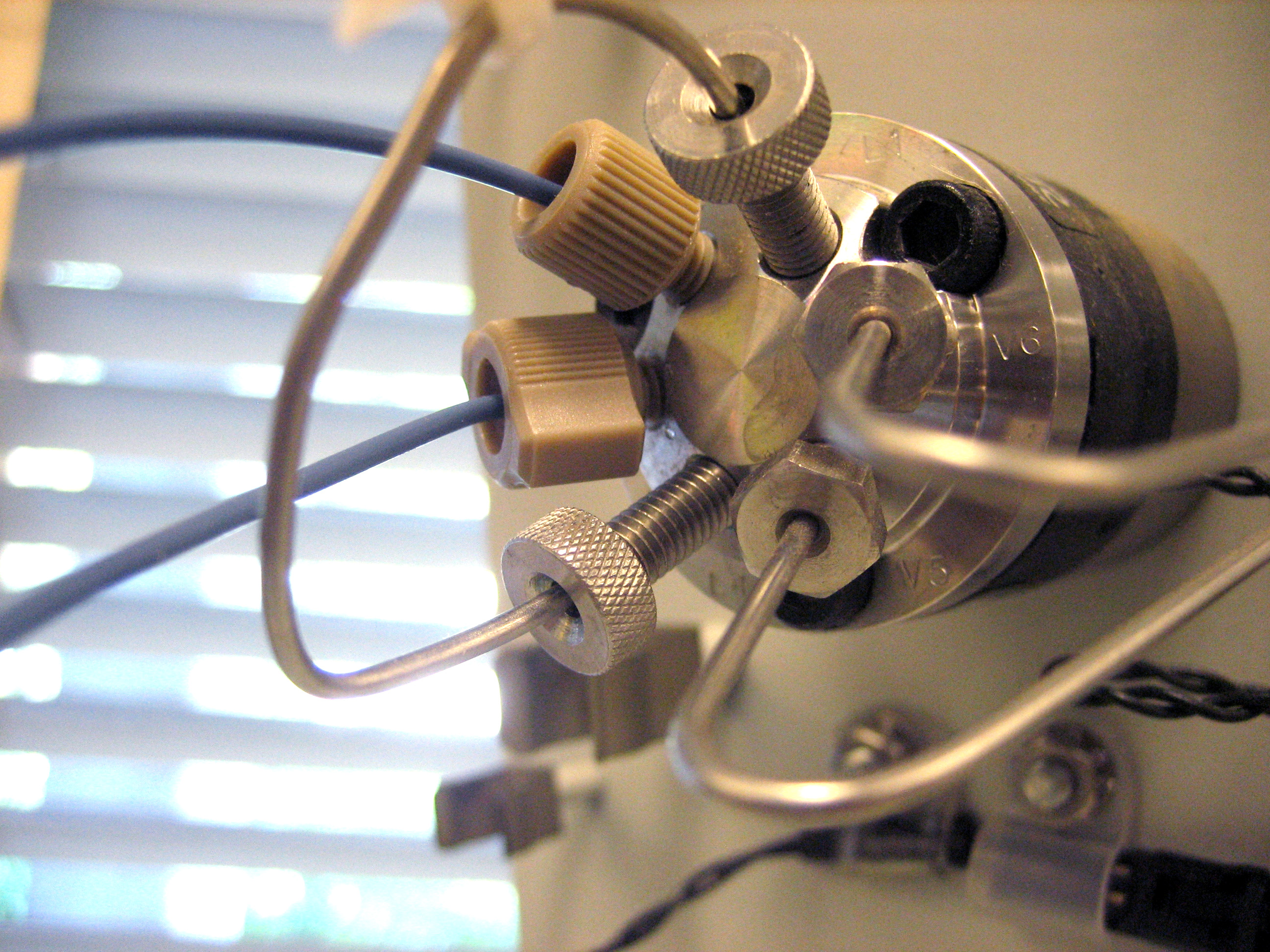 The inlet valve on the HPLC (High Performance Liquid Chromatography) machine in the food lab.